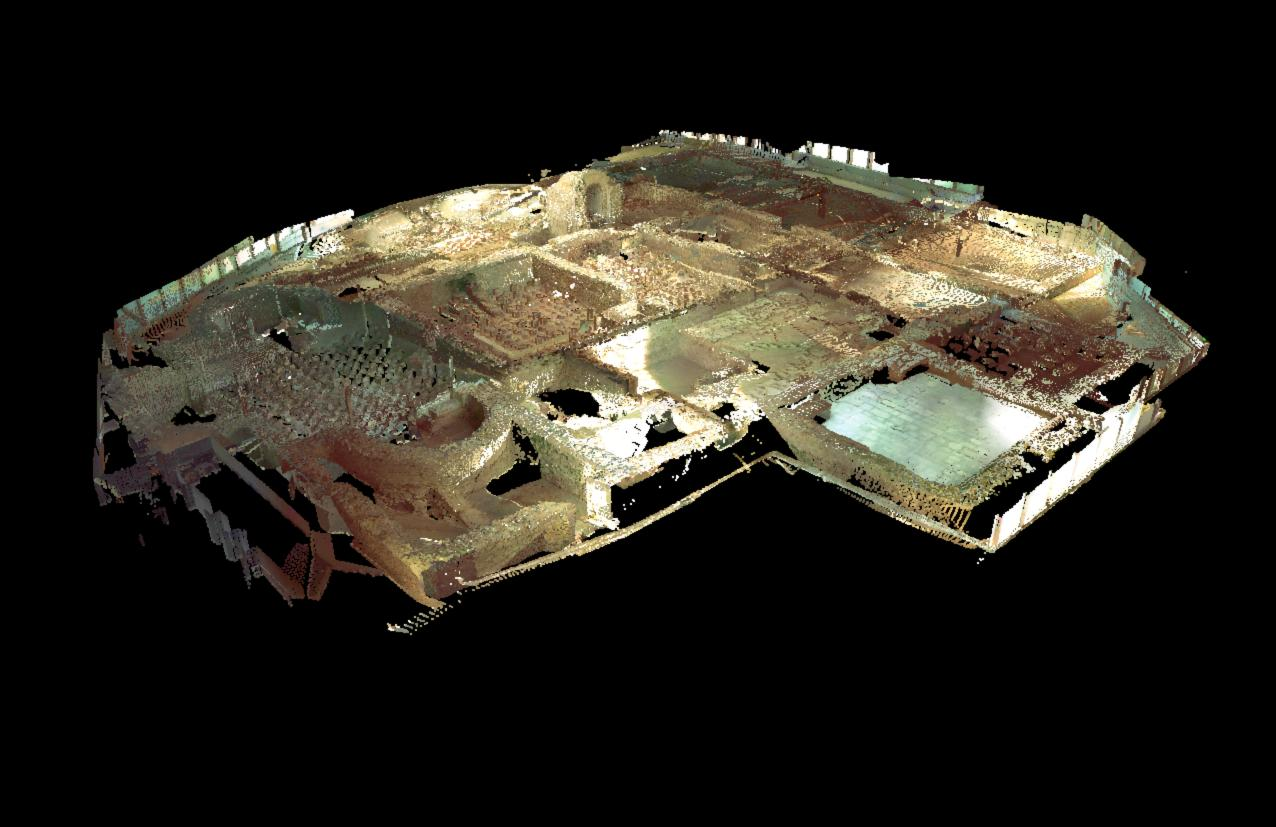 Photo-textured 3D elevation/layout of the Roman Baths in Weißenburg, Germany, using data from laser scan technology. These baths are a major remnant of the local Roman garrison, vicus Biriciana, whose duty was to protect the northern border of the province Rhaetia (Upper Germanic Rhaetian Limes). The baths that served the garrison, dating from 90 BCE to 259 CE, are located at the edge of the modern city of Weißenburg in Bavaria. Discovered in 1977, they are among the very few such Roman archaeological remains to be preserved on German soil.